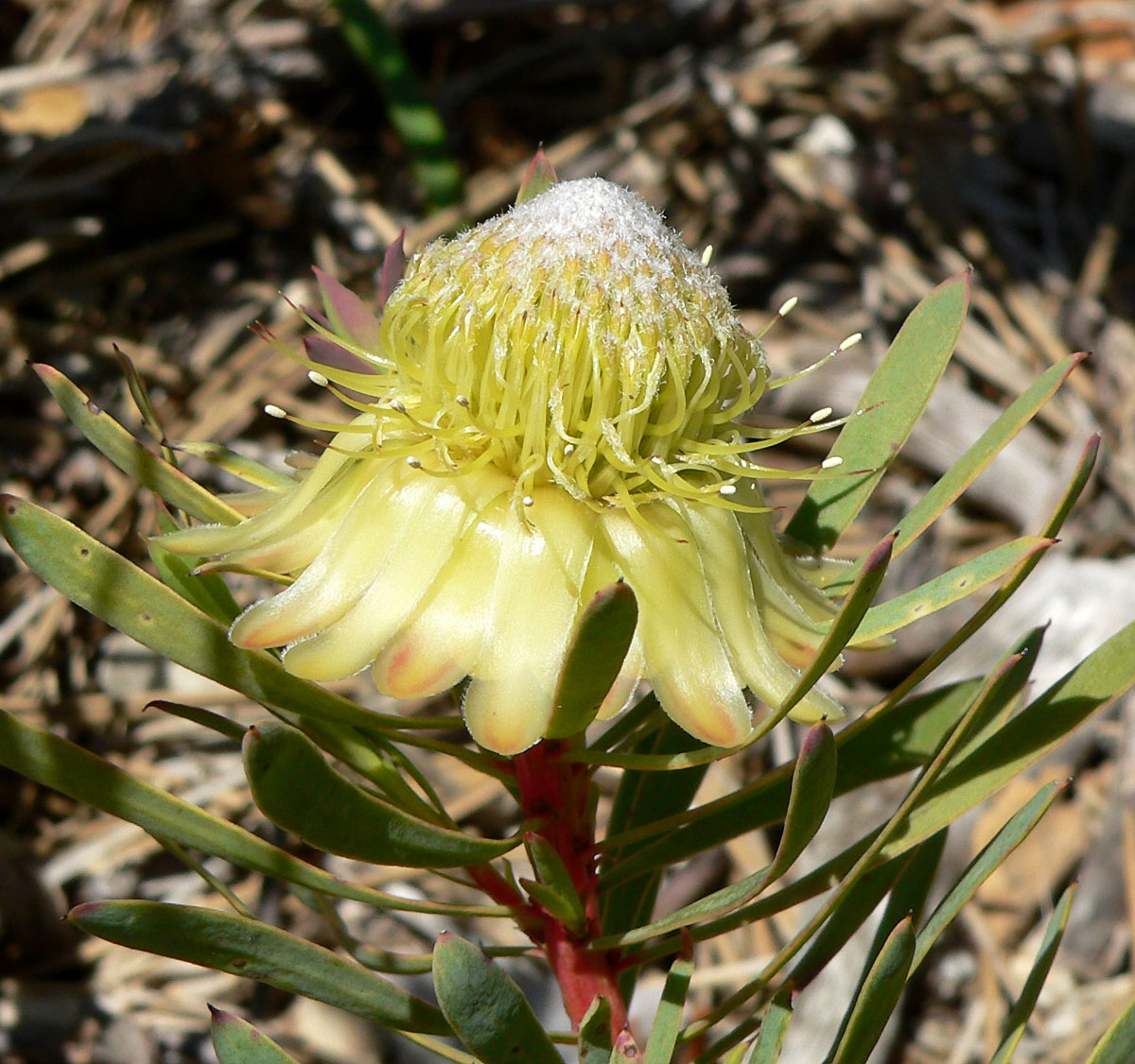 Protea scolymocephala at the University of California Botanical Garden, Berkeley, California